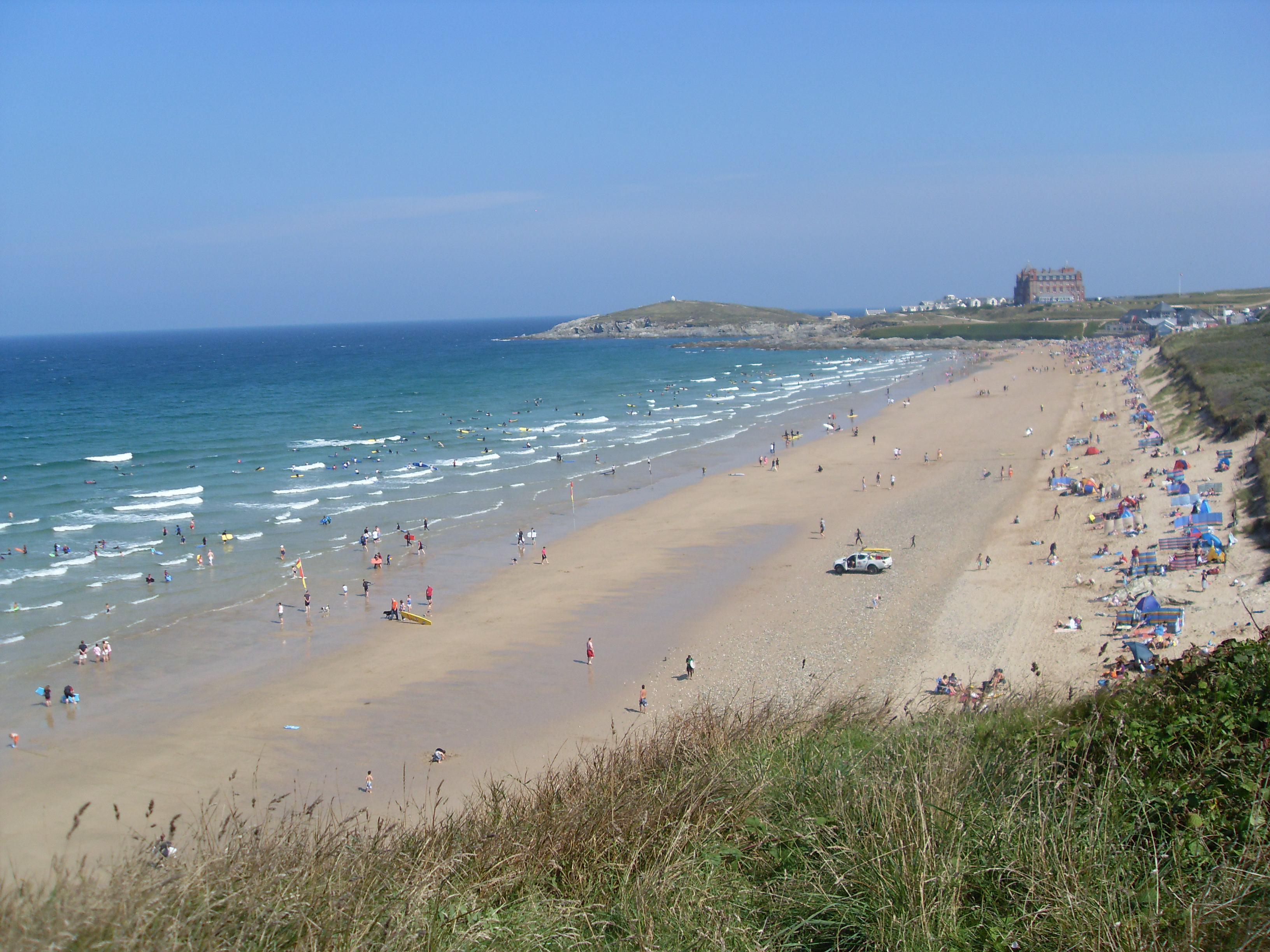 Fistral Beach. Taken in Newquay, England